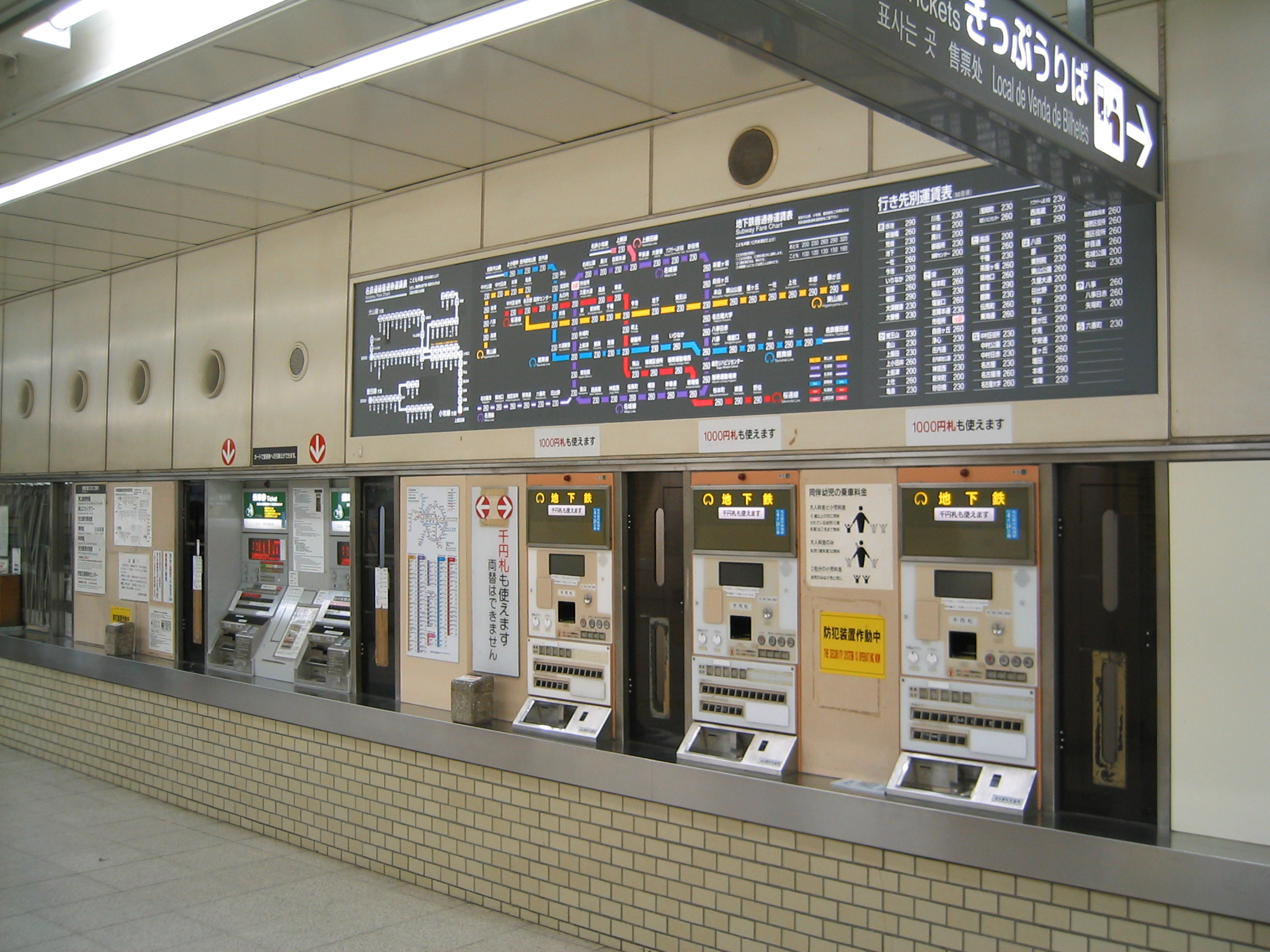 Ticket vending machines at Shiyakusho Station (Nagoya, Japan)